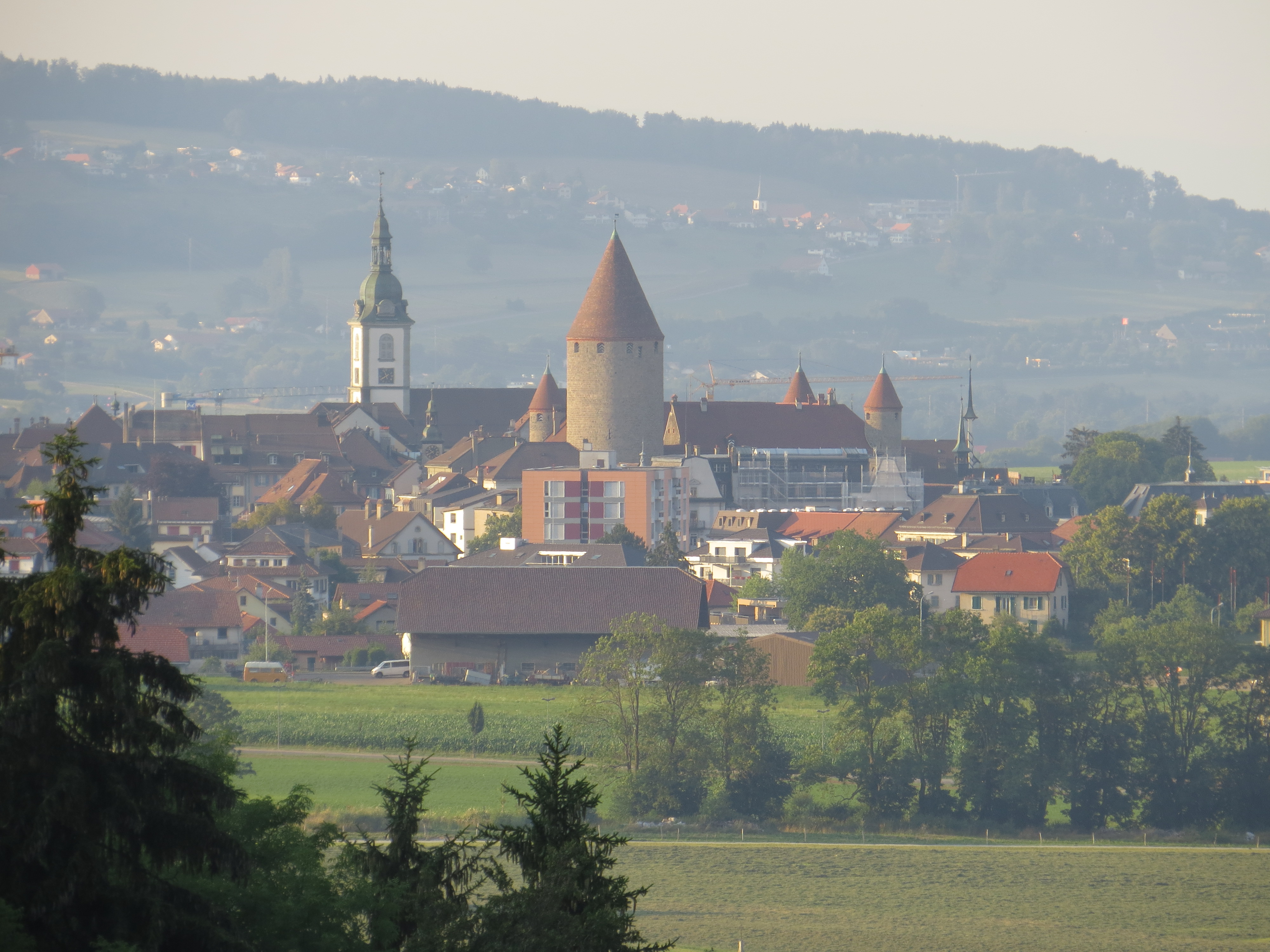 Bulle FR von Südwesten